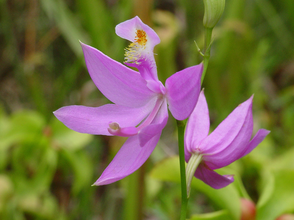 Calopogon tuberosus. An orchid from the Big Thicket, East Texas, USA.